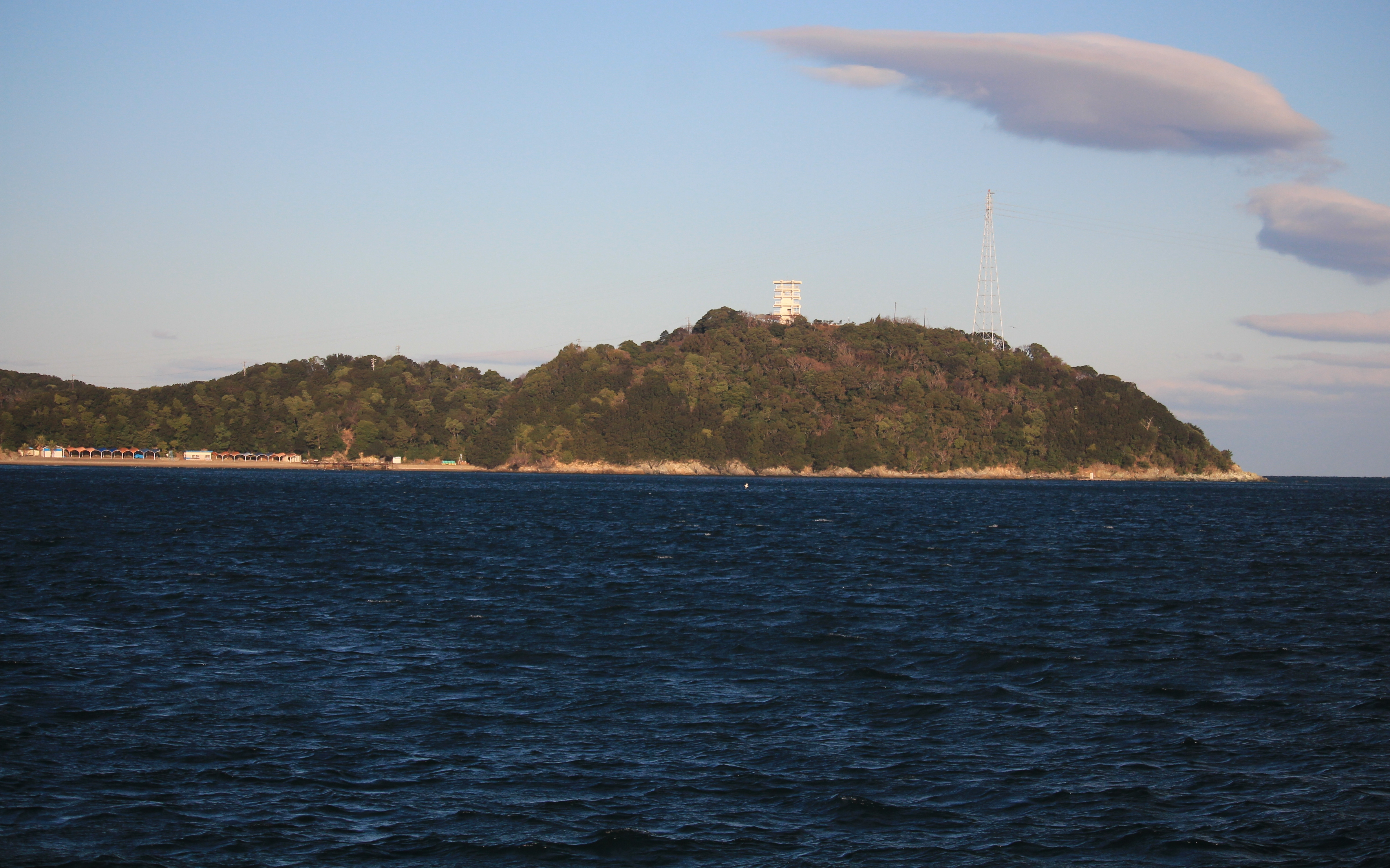 Hinata Island (Iruka Island), desert island in Toba, Mie prefecture, Japan.